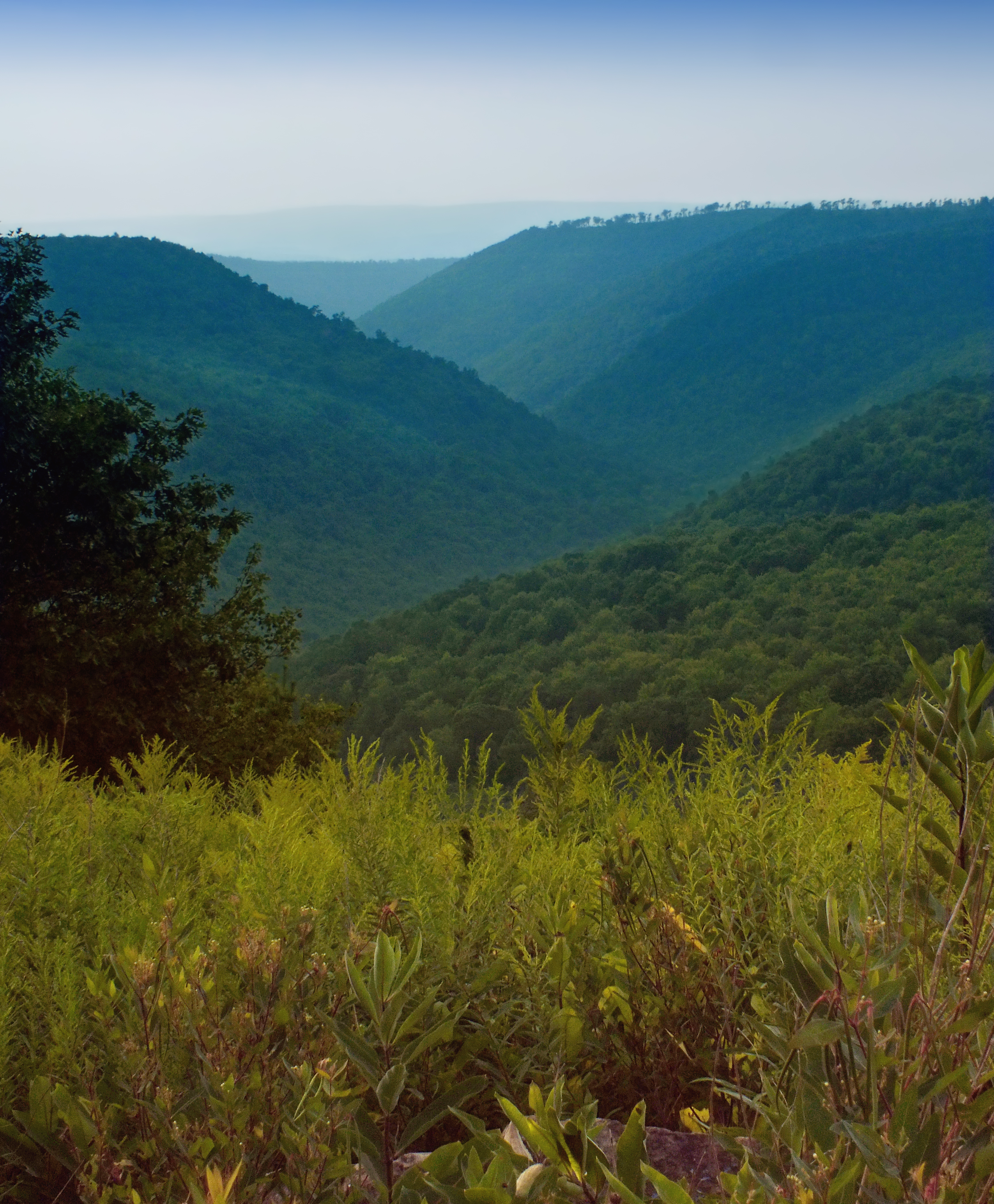 Hazy late-day light, Sproul State Forest, Beech Creek Township, Clinton County, as seen from the Fish Dam Run Vista along PA Route 144. Two other photos here and here.